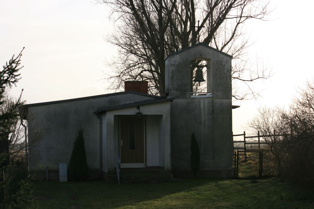 Church in Jahnberge in Brandenburg, Germany